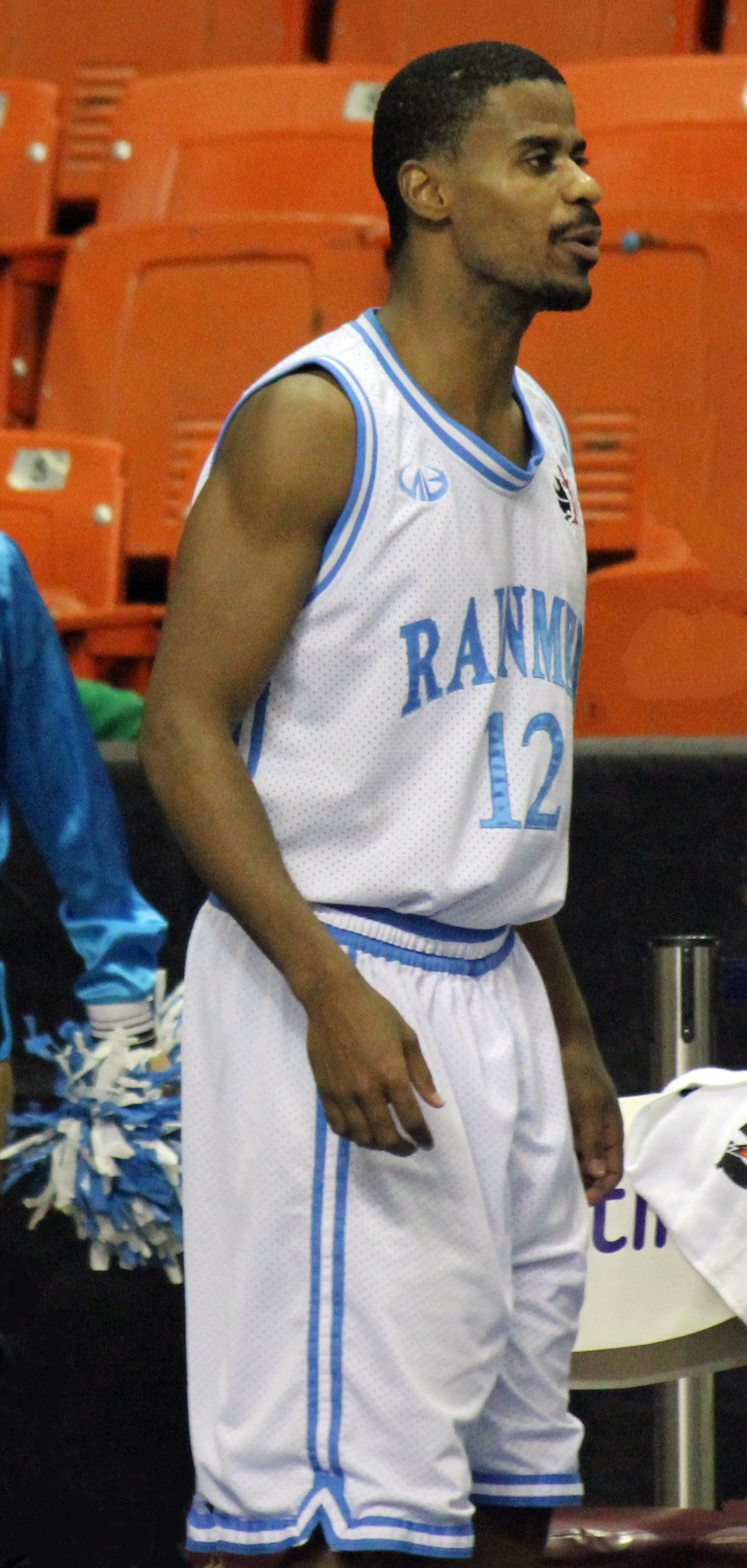 Cliff Clinkscales